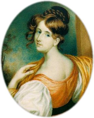 1832 portrait of English writer and biographer Elizabeth Gaskell (1810-65)